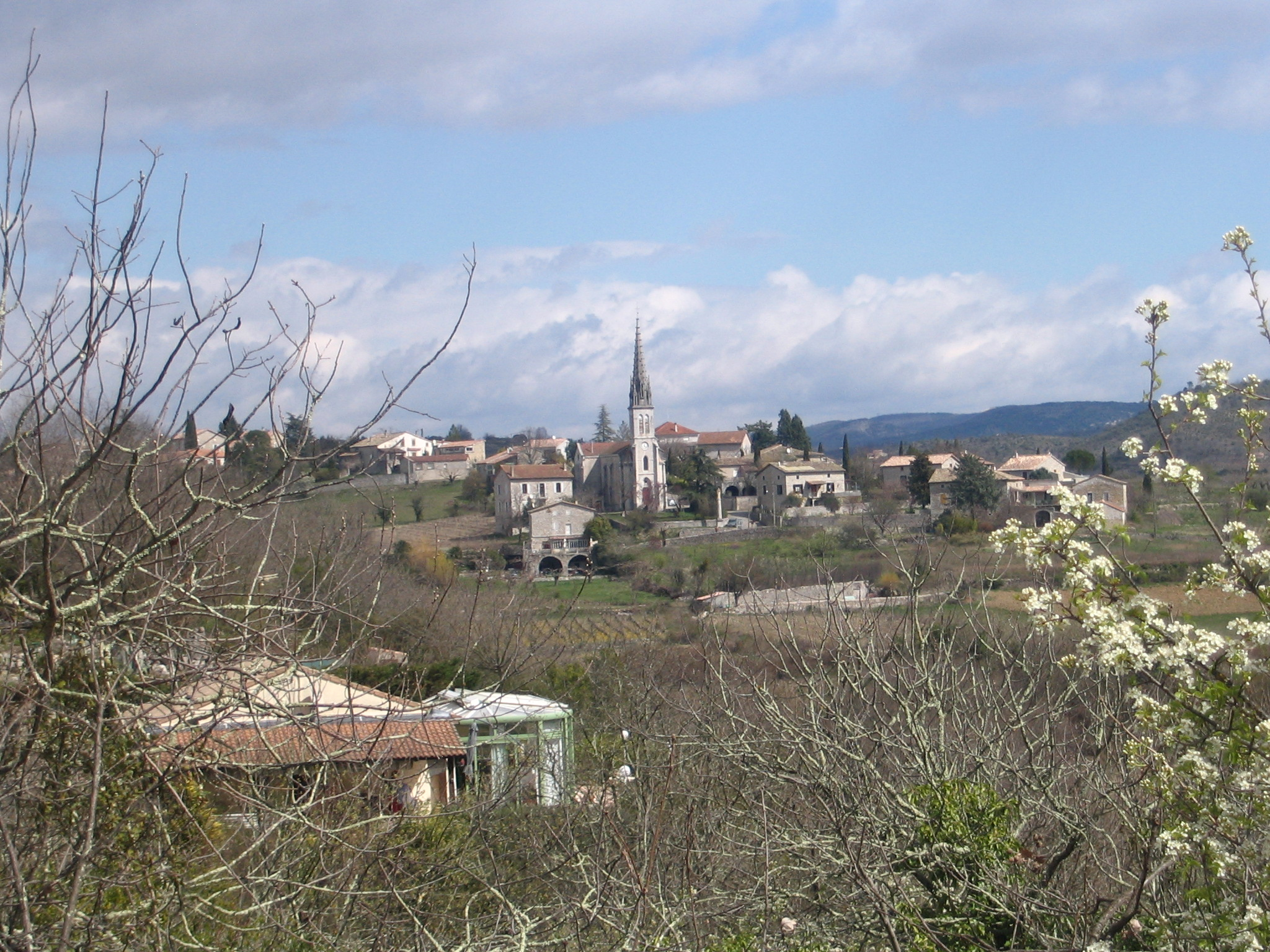 Village Chauzon in Ardèche Landscape, France.